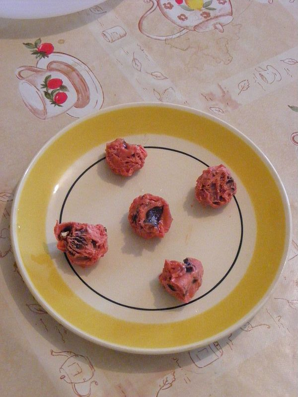 Papalines (confectionery) of Avignon, France.